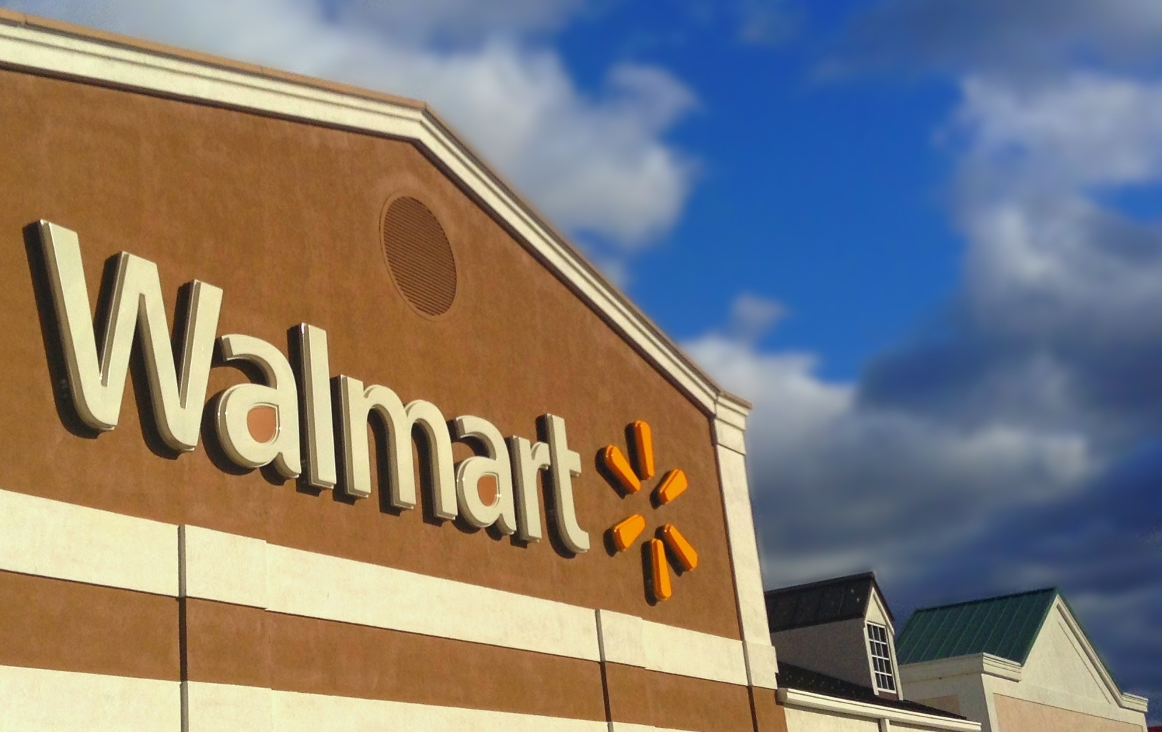 Walmart Store Facade with clearing skies. Picture by Mike Mozart of JeepersMedia on Youtube.